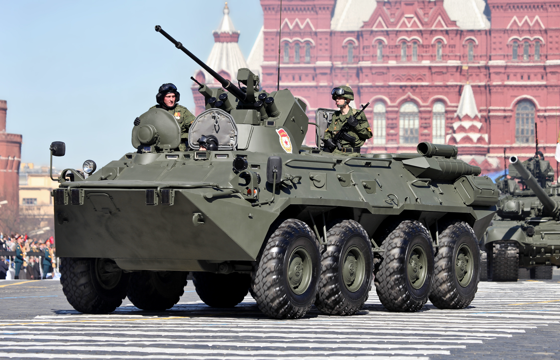 BTR-82A APC